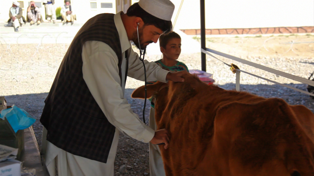 An Afghan veterinarian assesses the health of a cow in Baraki Barak District, Afghanistan